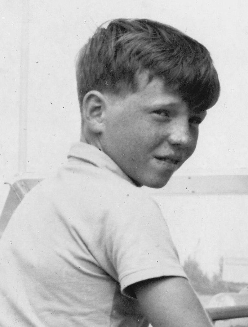 Publicity photo of Tommy Norden promoting the television series Flipper.